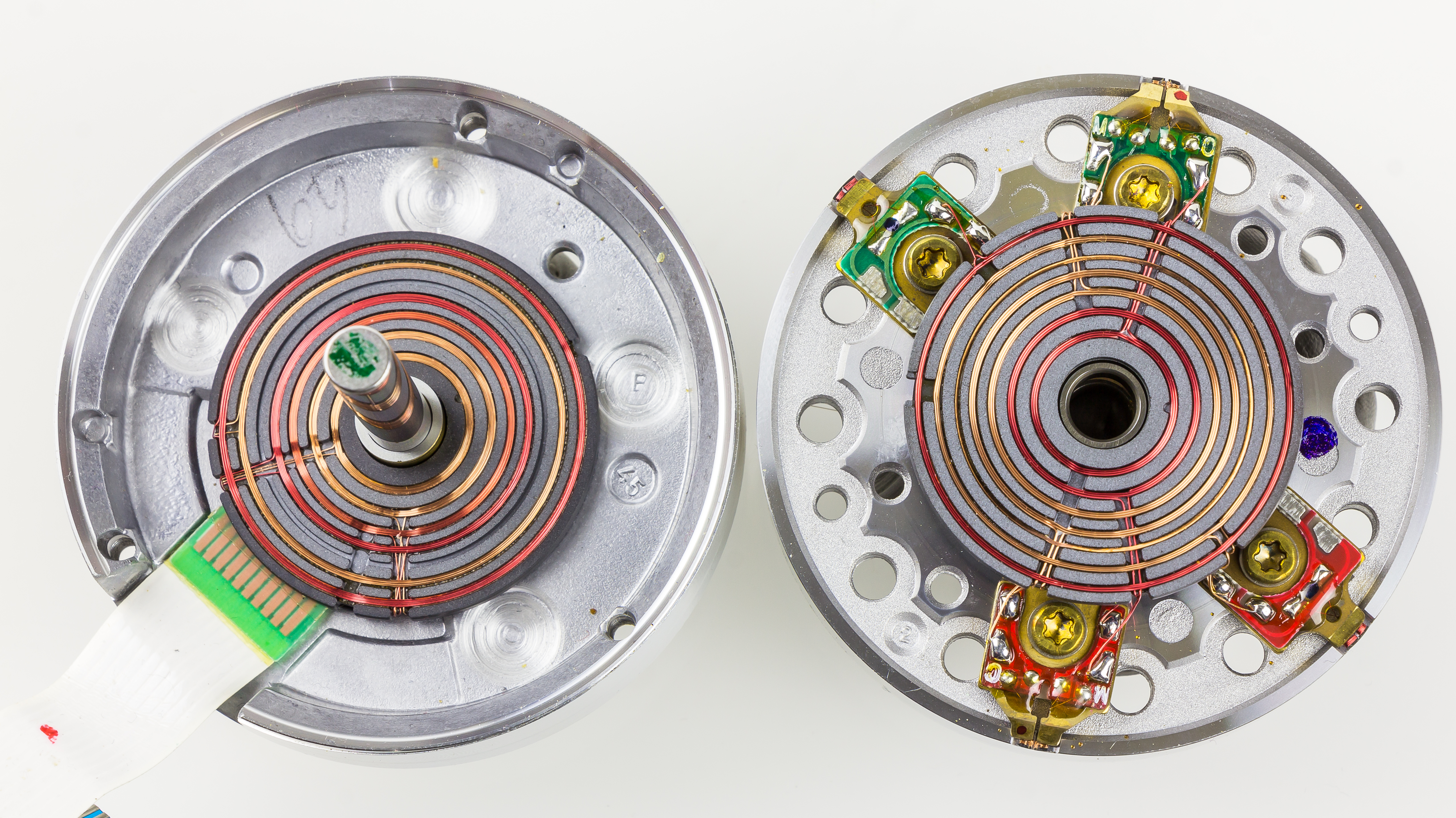 Medion MD8910 - VHS Helical scan tape head, inner view